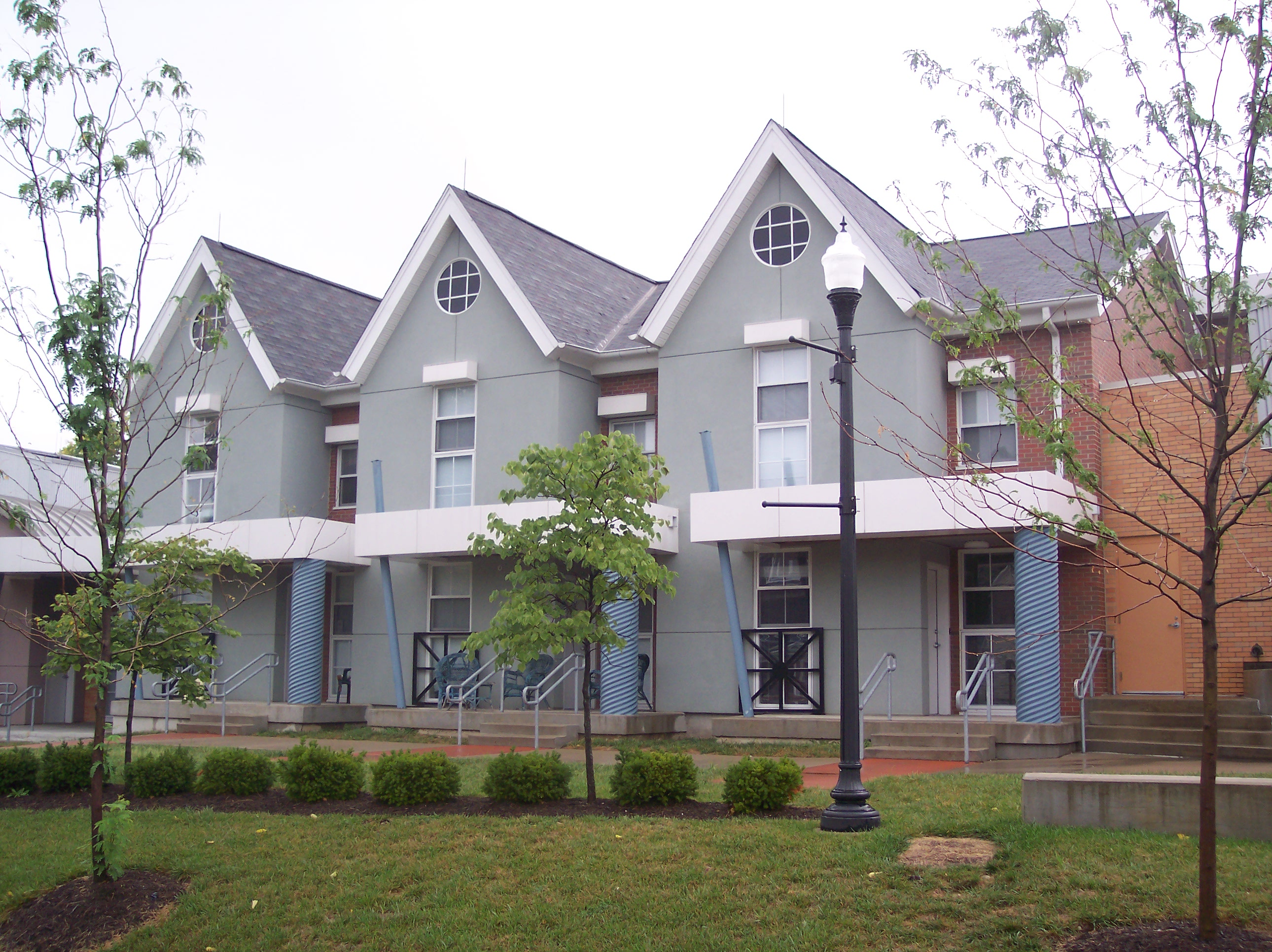 306, 308 and 310 Kiefaber Street, three of the units in the ArtStreet complex in the University of Dayton Ghetto.